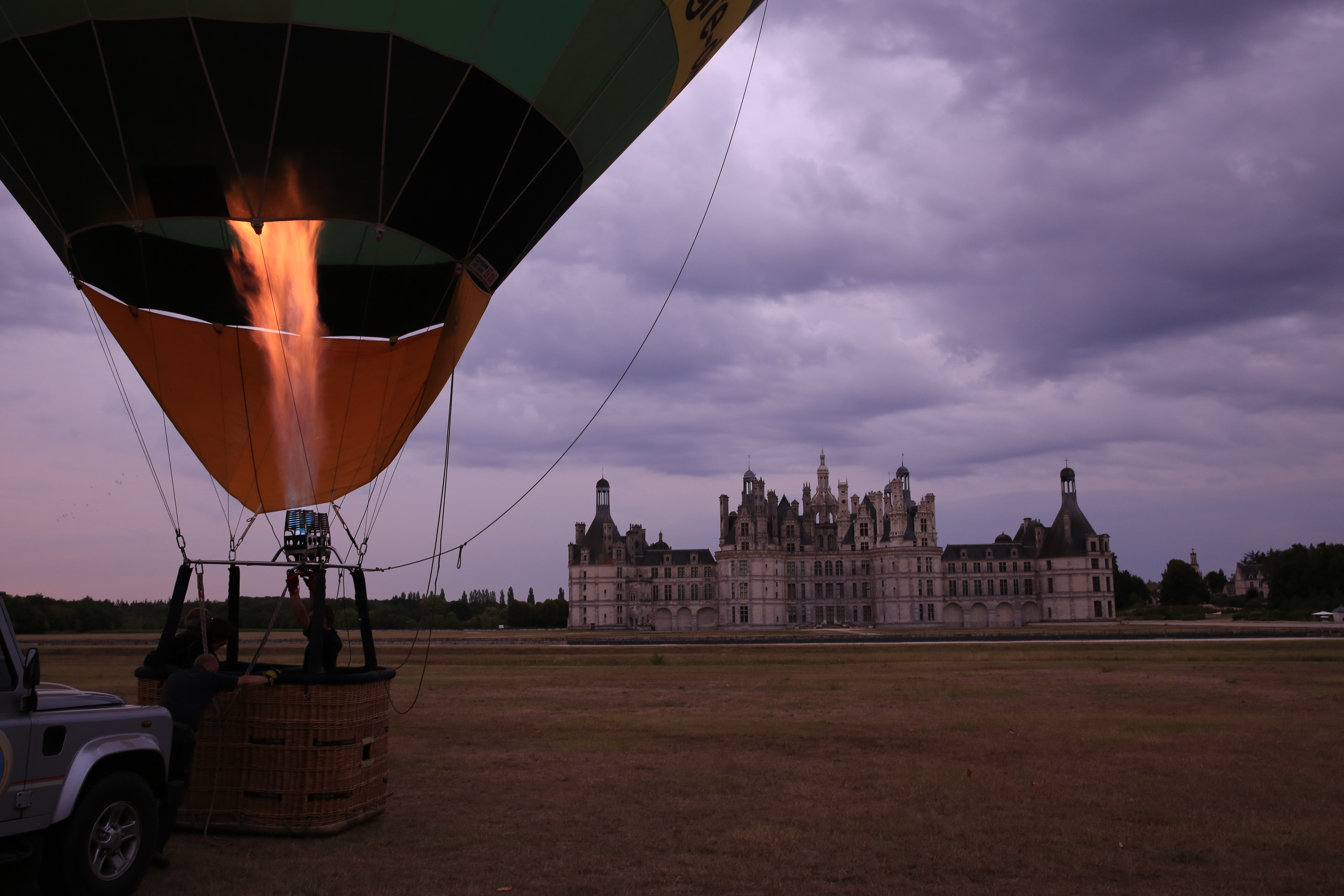 Setting up a hot air balloon in Chambord's park.